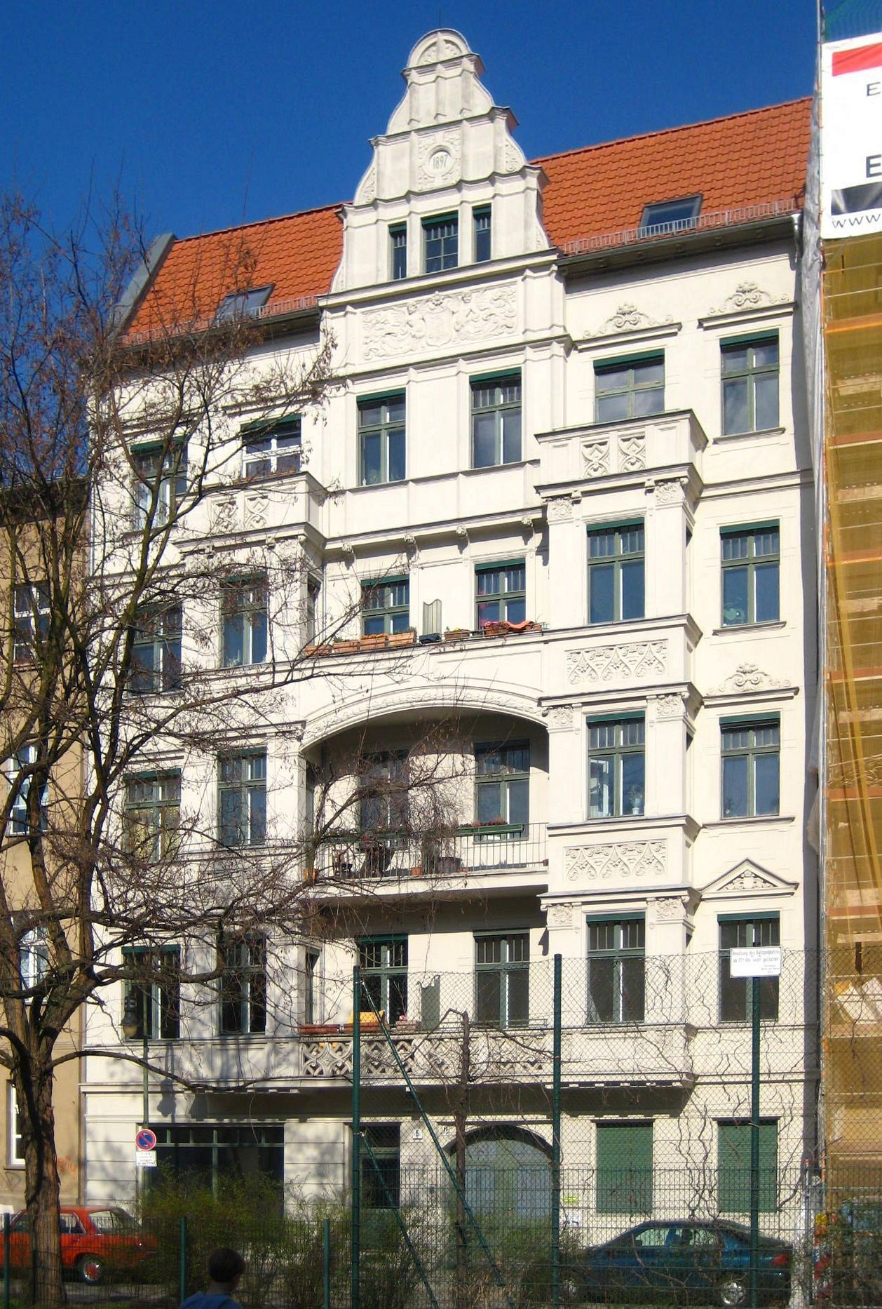 Residential building at Koppenplatz No. 6 in Berlin-Mitte. The house was built in 1897. It has been designated as a historic landmark.